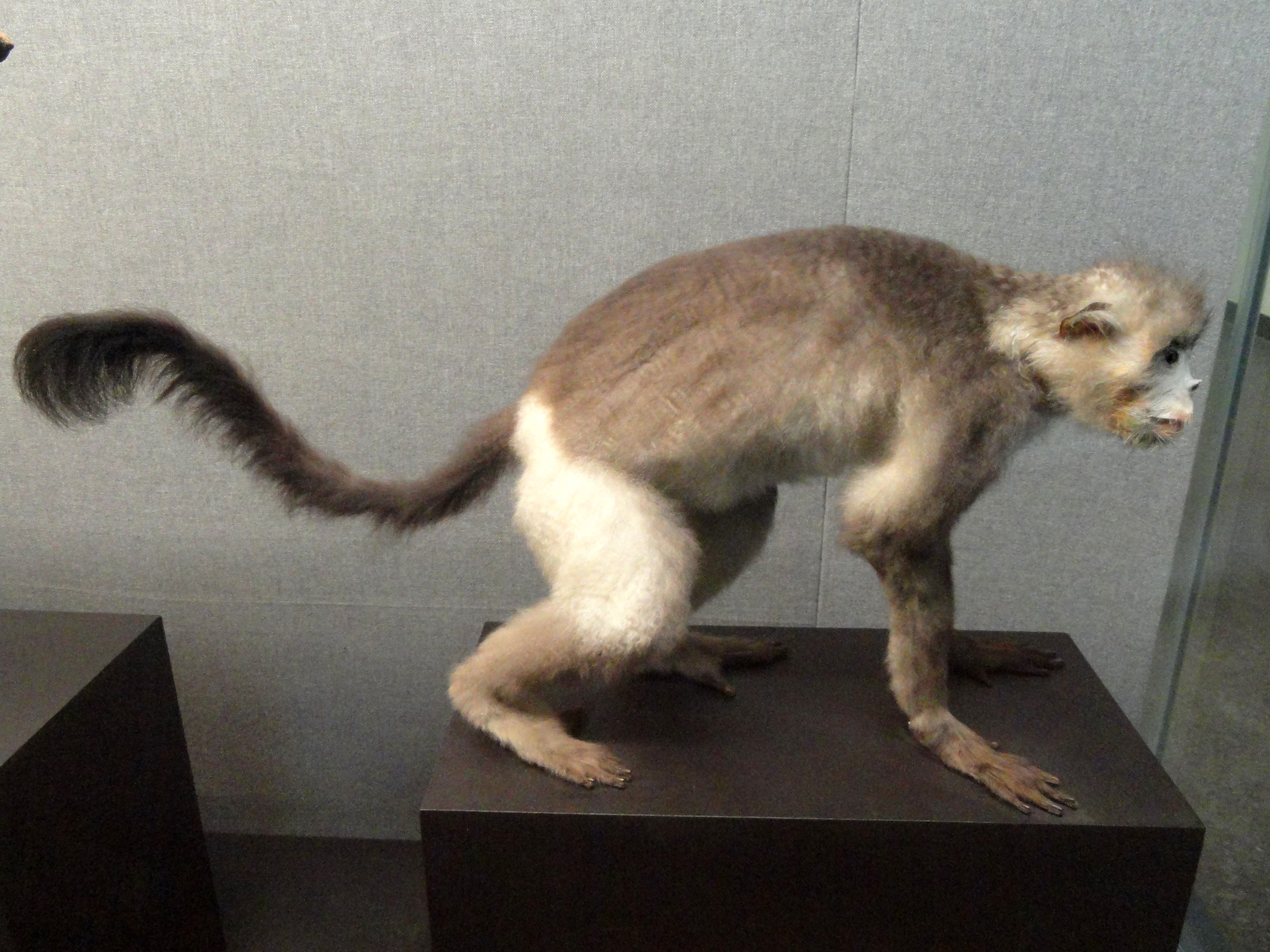 Taxidermy exhibit in the Kunming Natural History Museum of Zoology (昆明动物博物馆), Kunming, Yunnan, China.